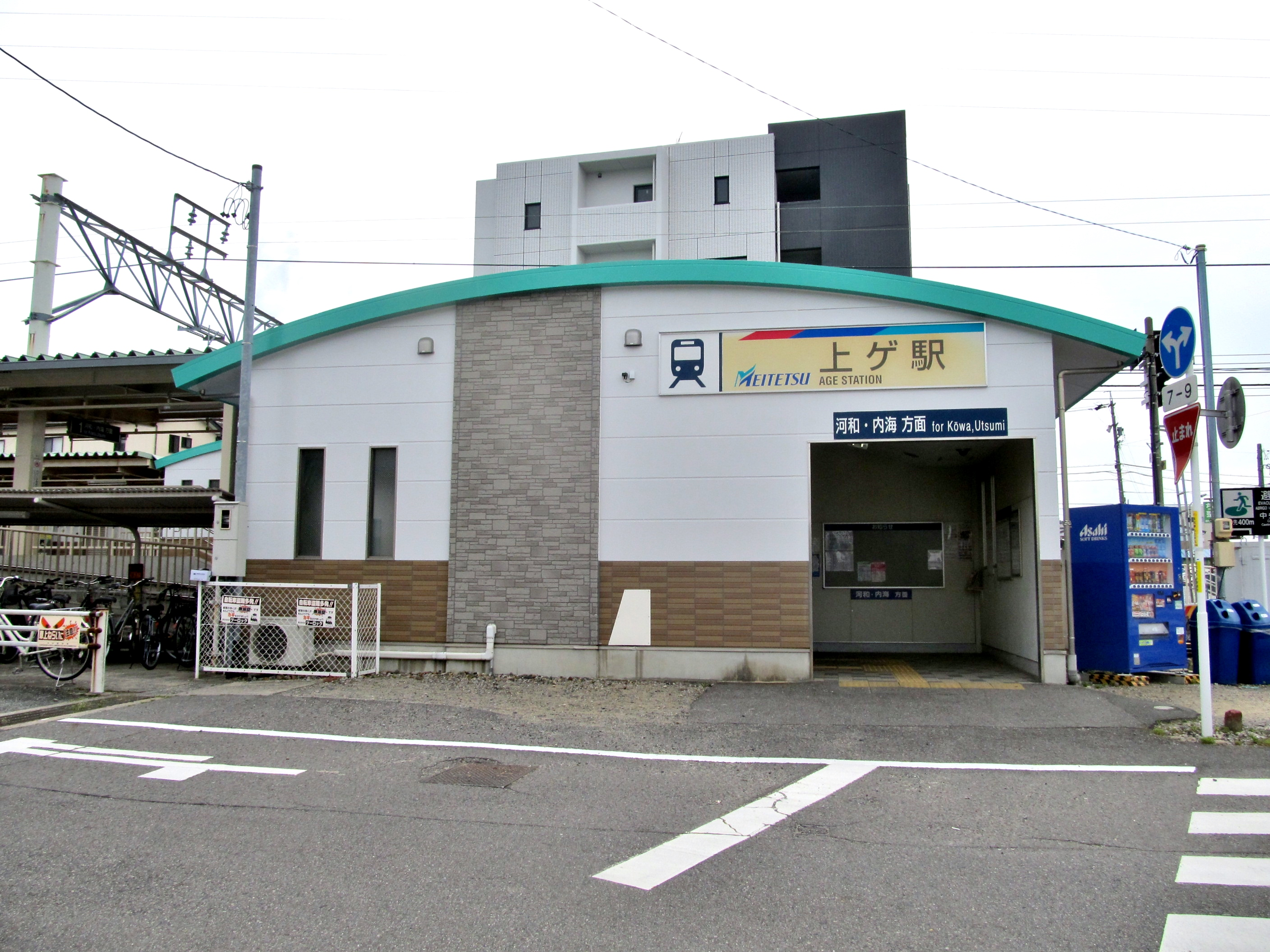 Nagoya Railroad Kōwa Line Age Station Building (for Kōwa)